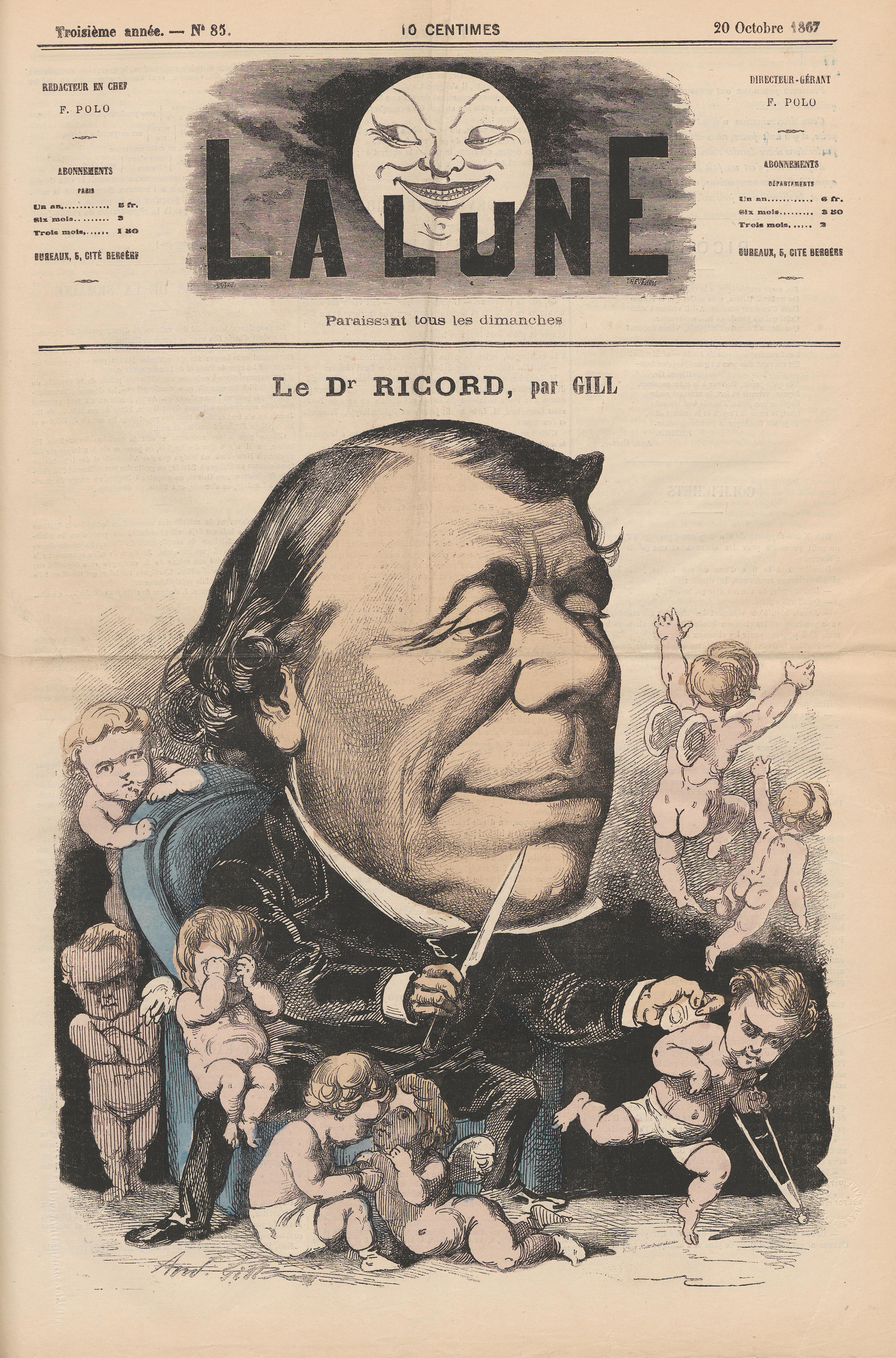 Caricature of Philippe Ricord Cover of La Lune 20 October 1867 Hand-colored Engraving 12"w x 18"h